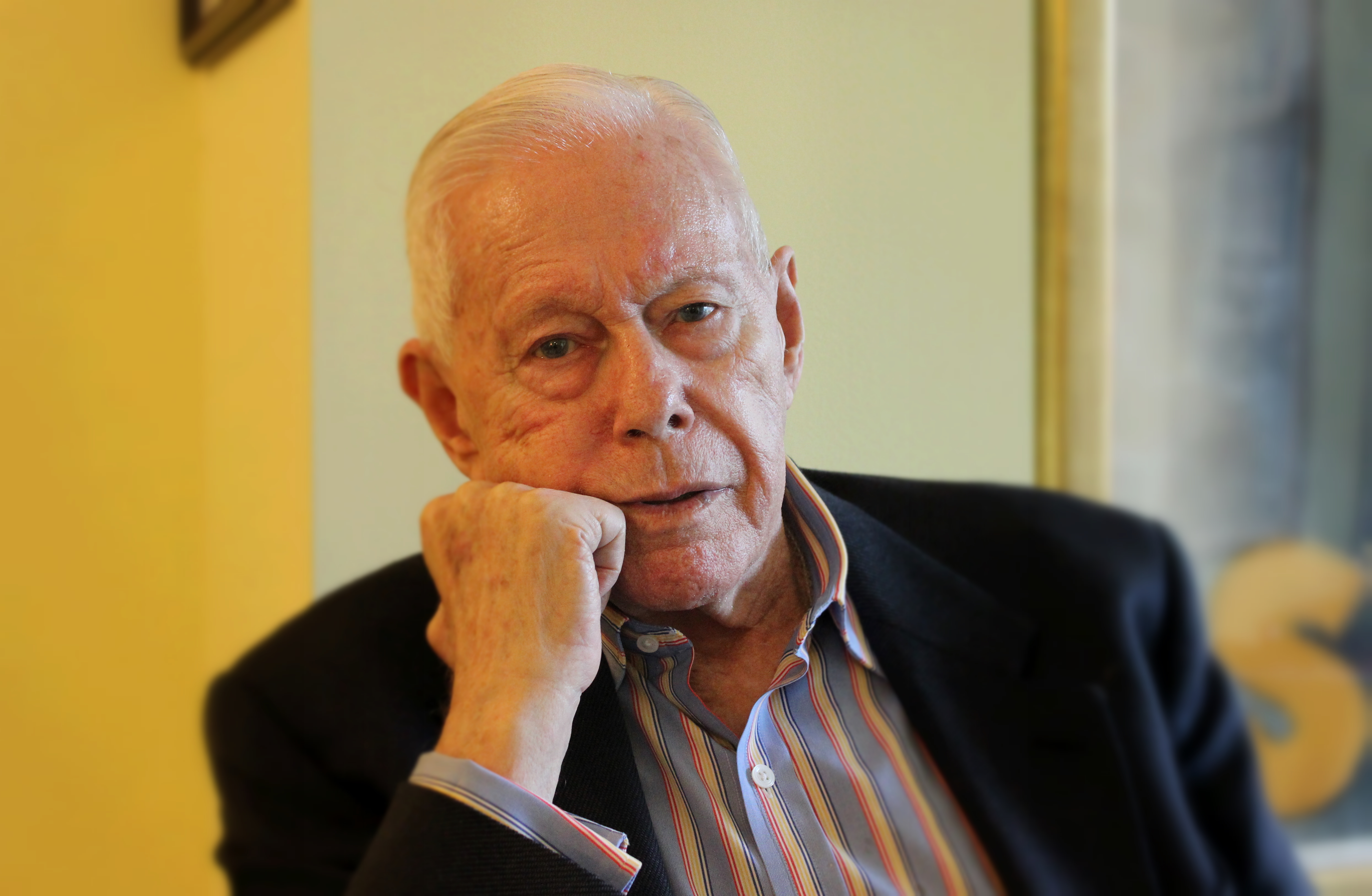 April 8th, 2015